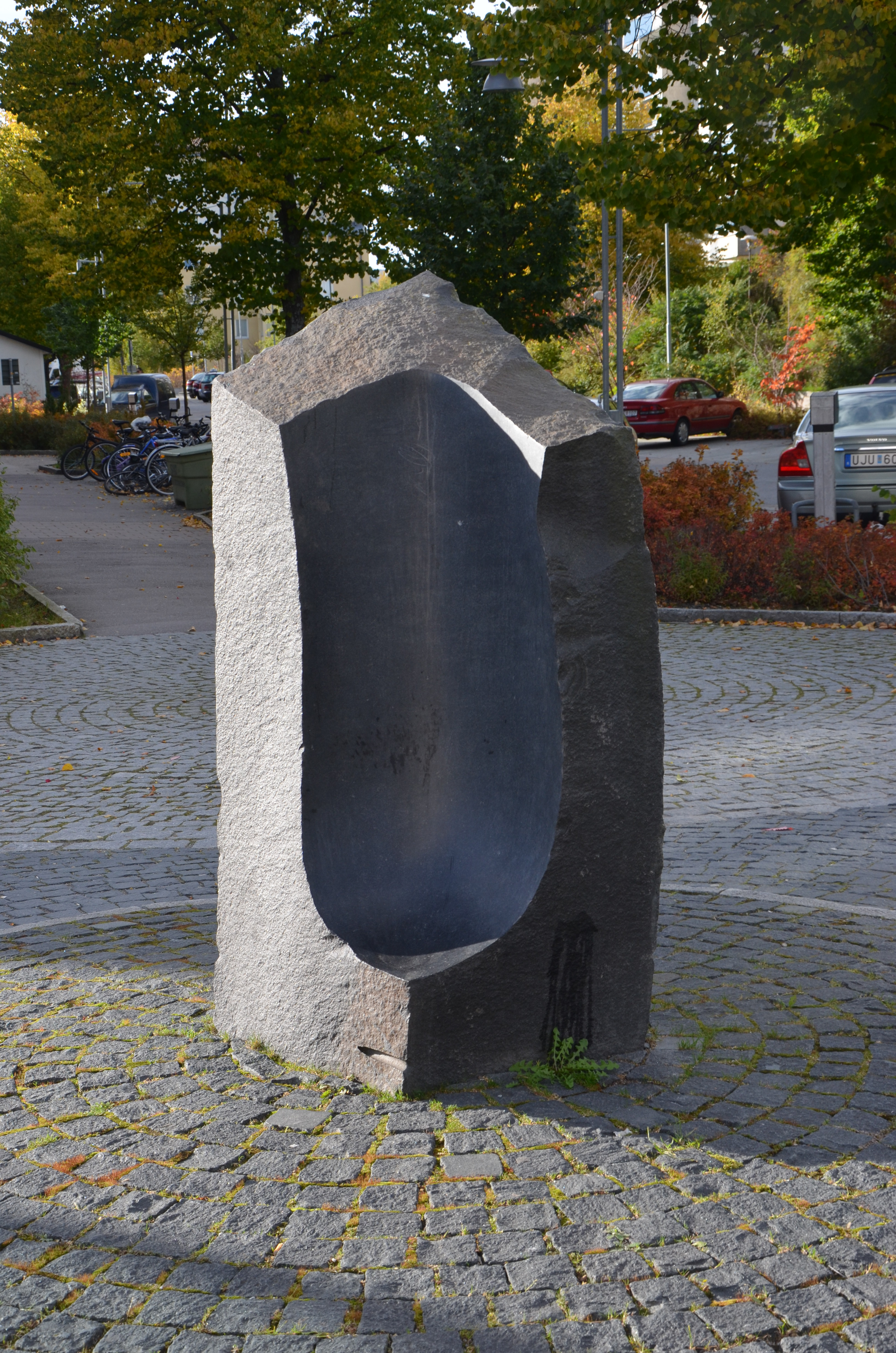 Sculpture Dialog by Eva and Milan Halaska, Skärholmen, Strockholm Municipality